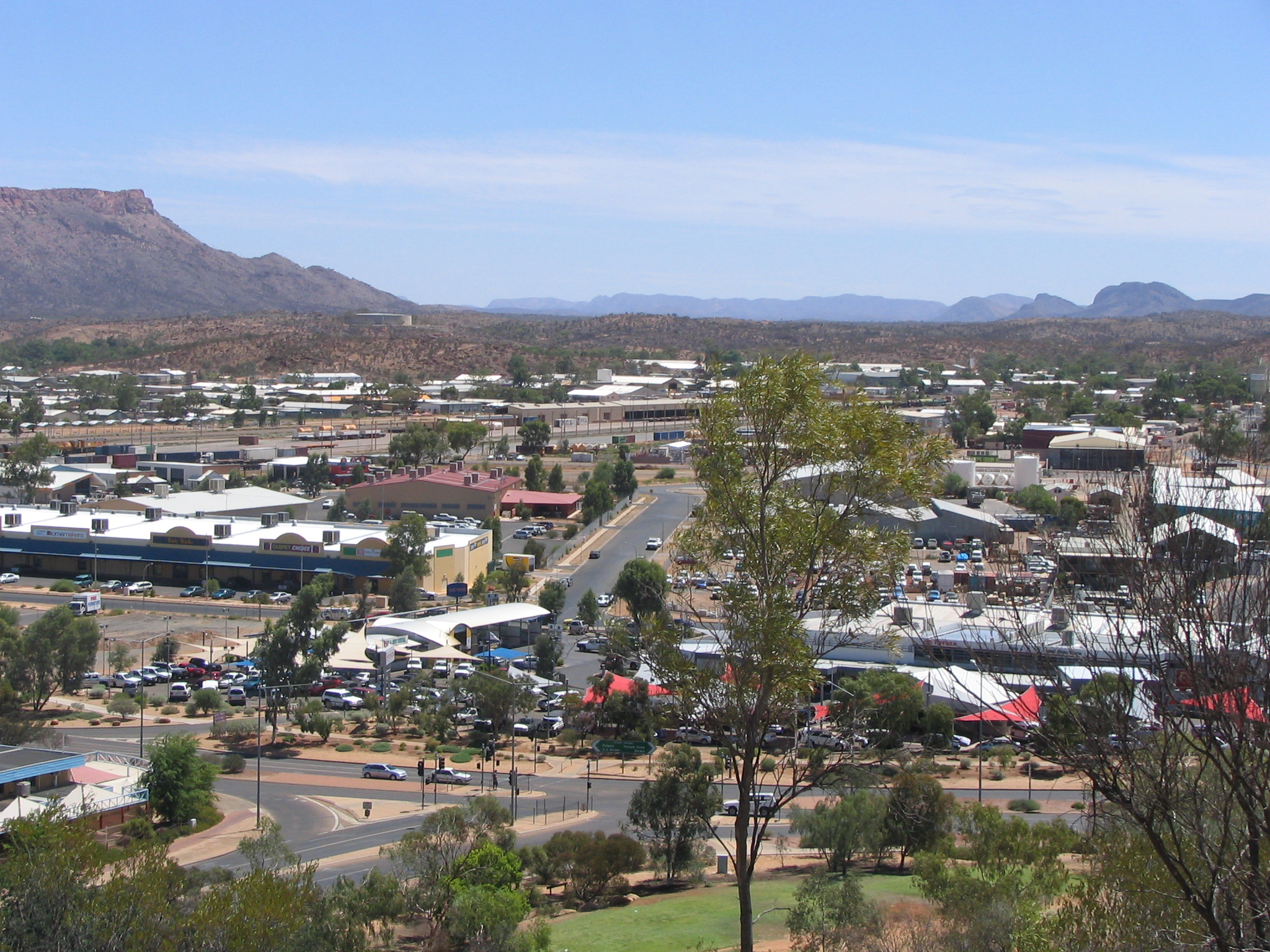 Alice Springs, Australia